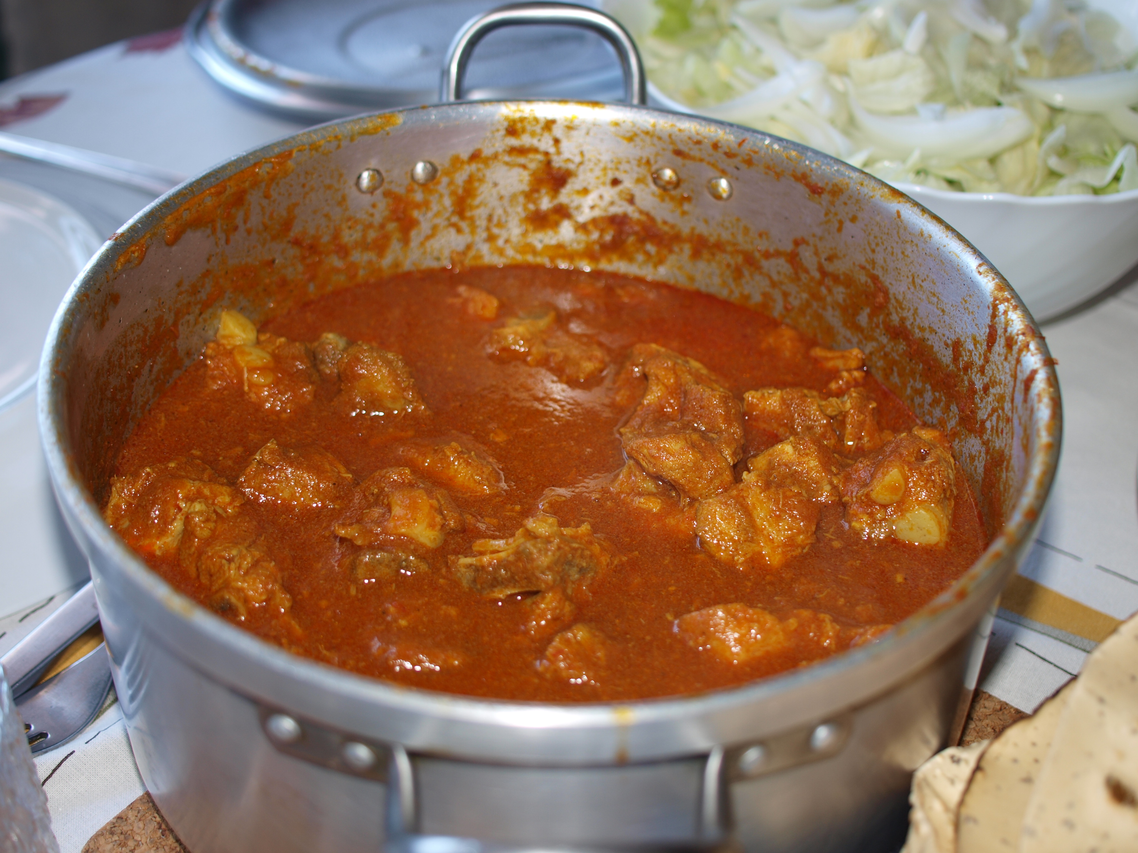 Pork balchão, a goan dish, in Carcavelos, Portugal.